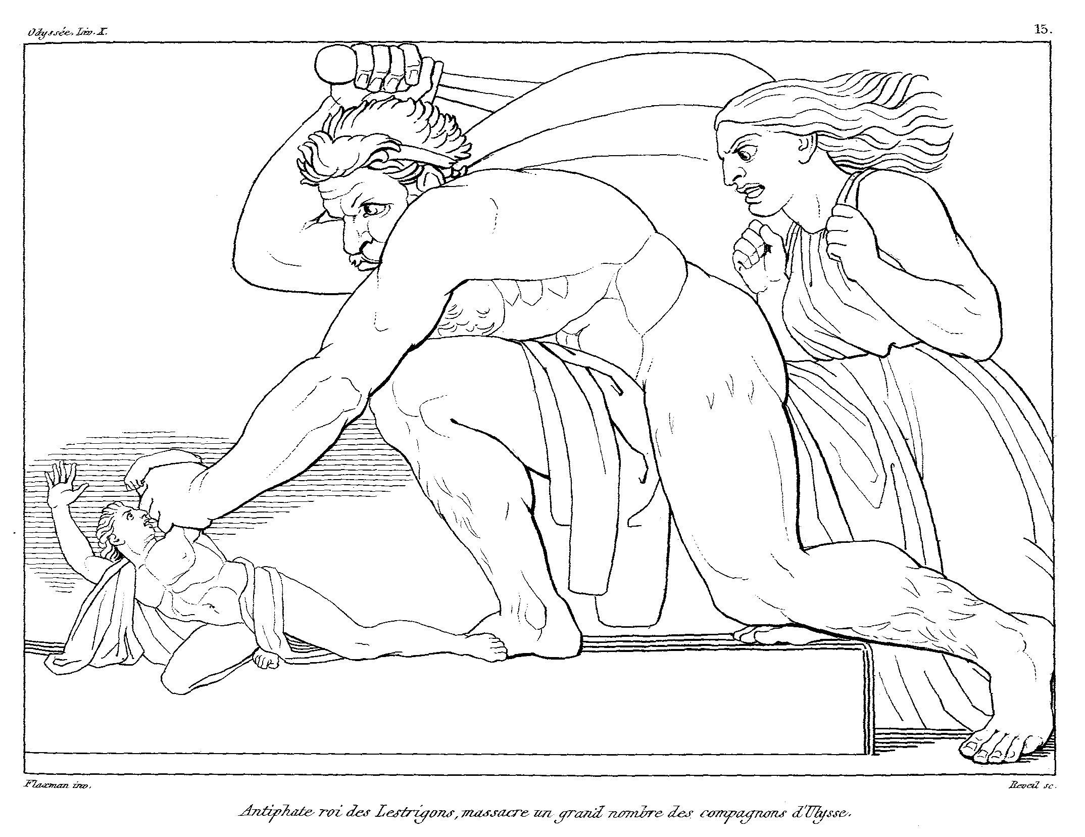 Illustrations of Odyssey